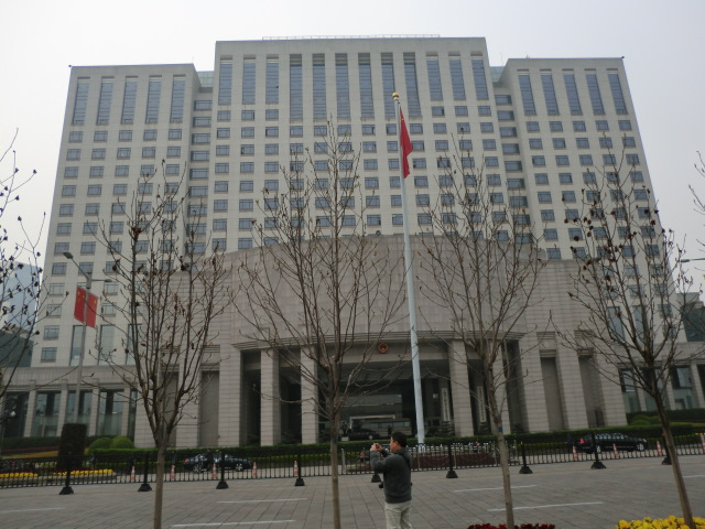 City office of Shanghai